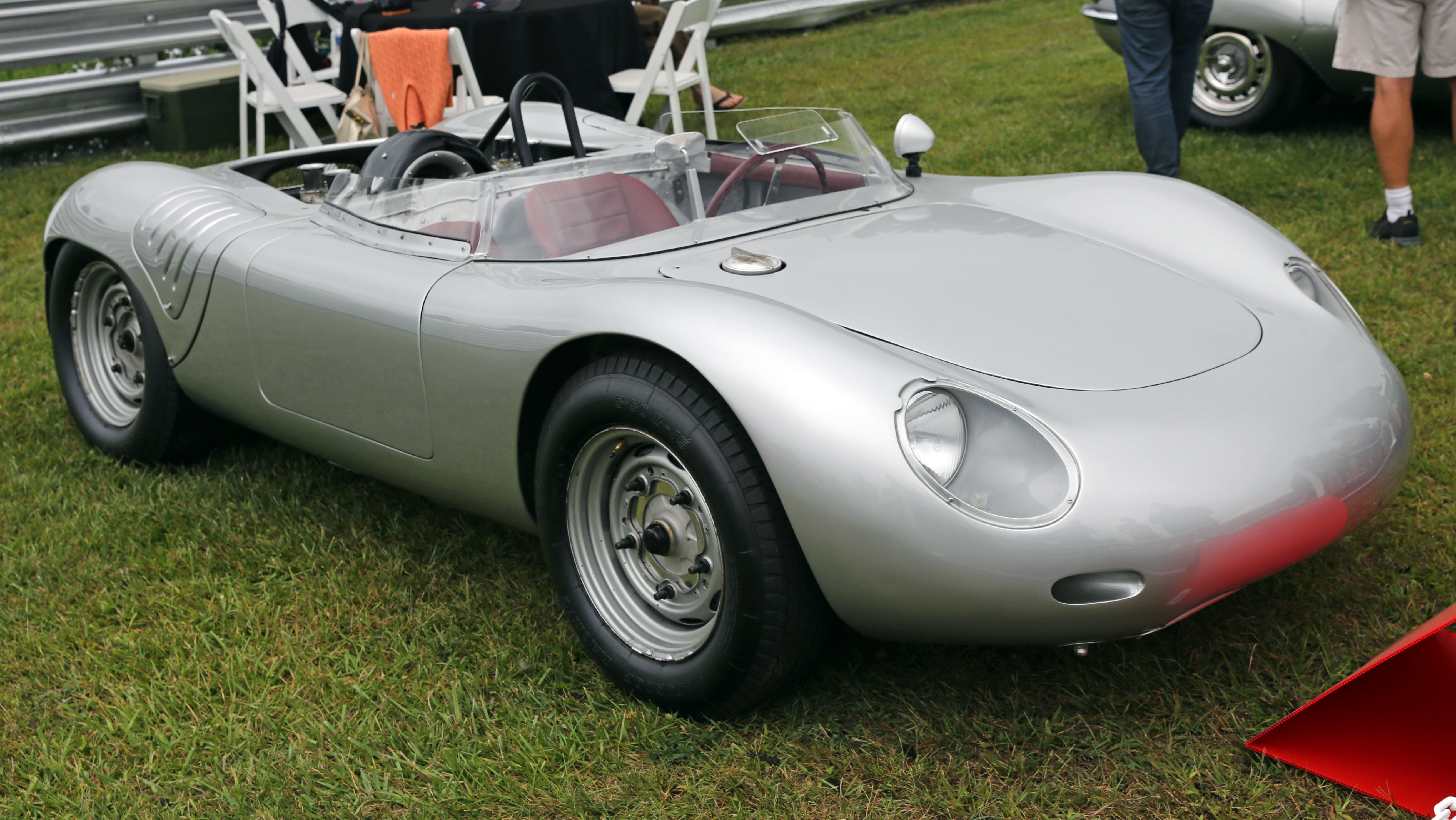 Ralph Lauren's 1959 Porsche 718 RSK Spyder (718-009), seen at the 2014 Lime Rock Concours d'Élegance with its engine cover off. This very car was used to practice for the 1959 Targa Florio, and came in second in the six-hour Goodwood TT, the last race of the 1959 season with Wolfgang von Trips at the wheel.